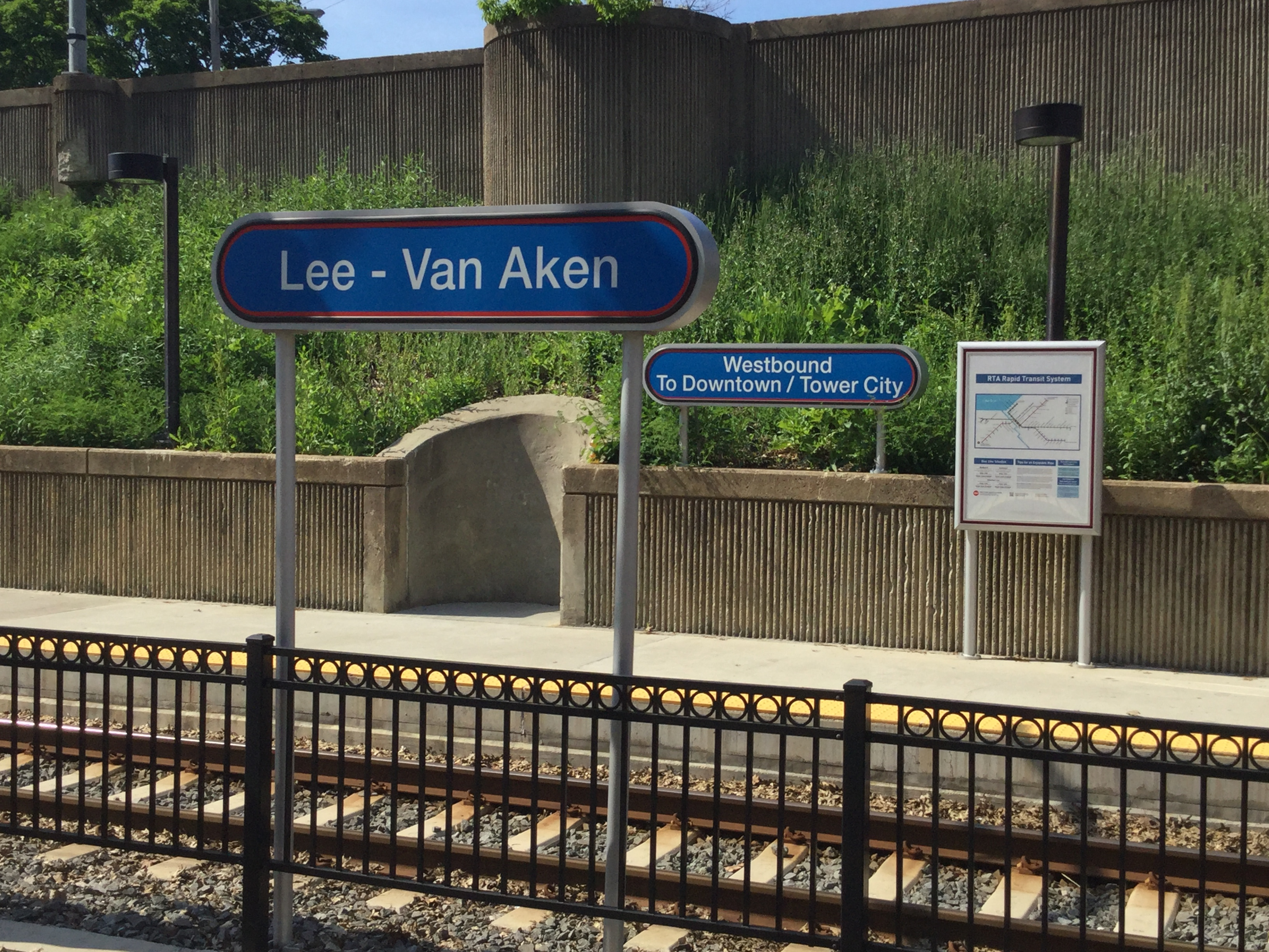 RTA station